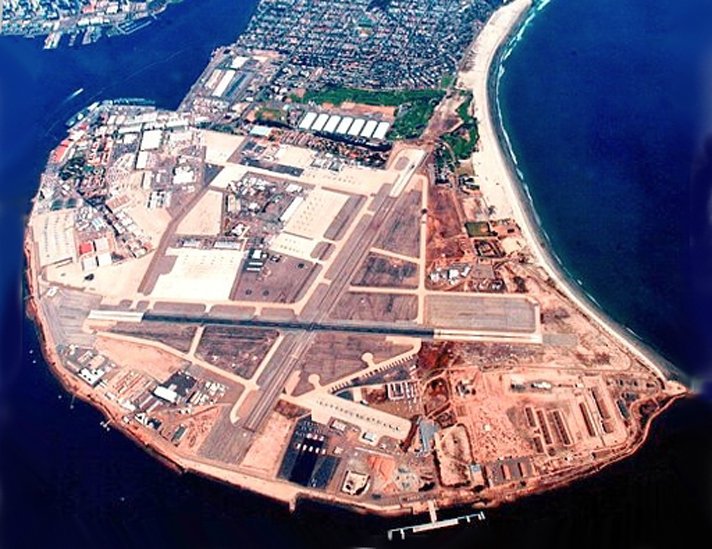 Aerial image of NAS North Island